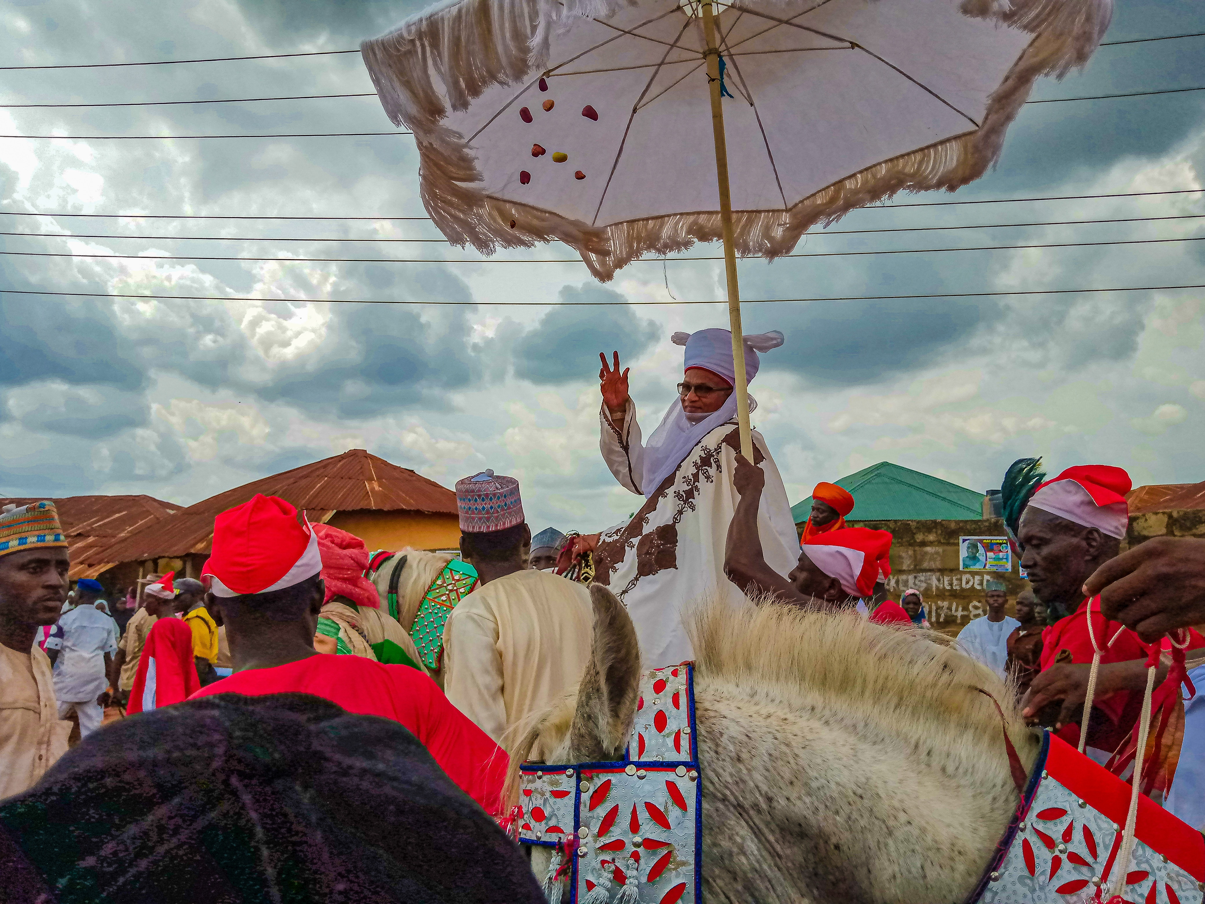 The ruler of the Nupe people, the "Etsu Nupe" throwing kolanuts into the crowd during the 2019 Durbar Festival